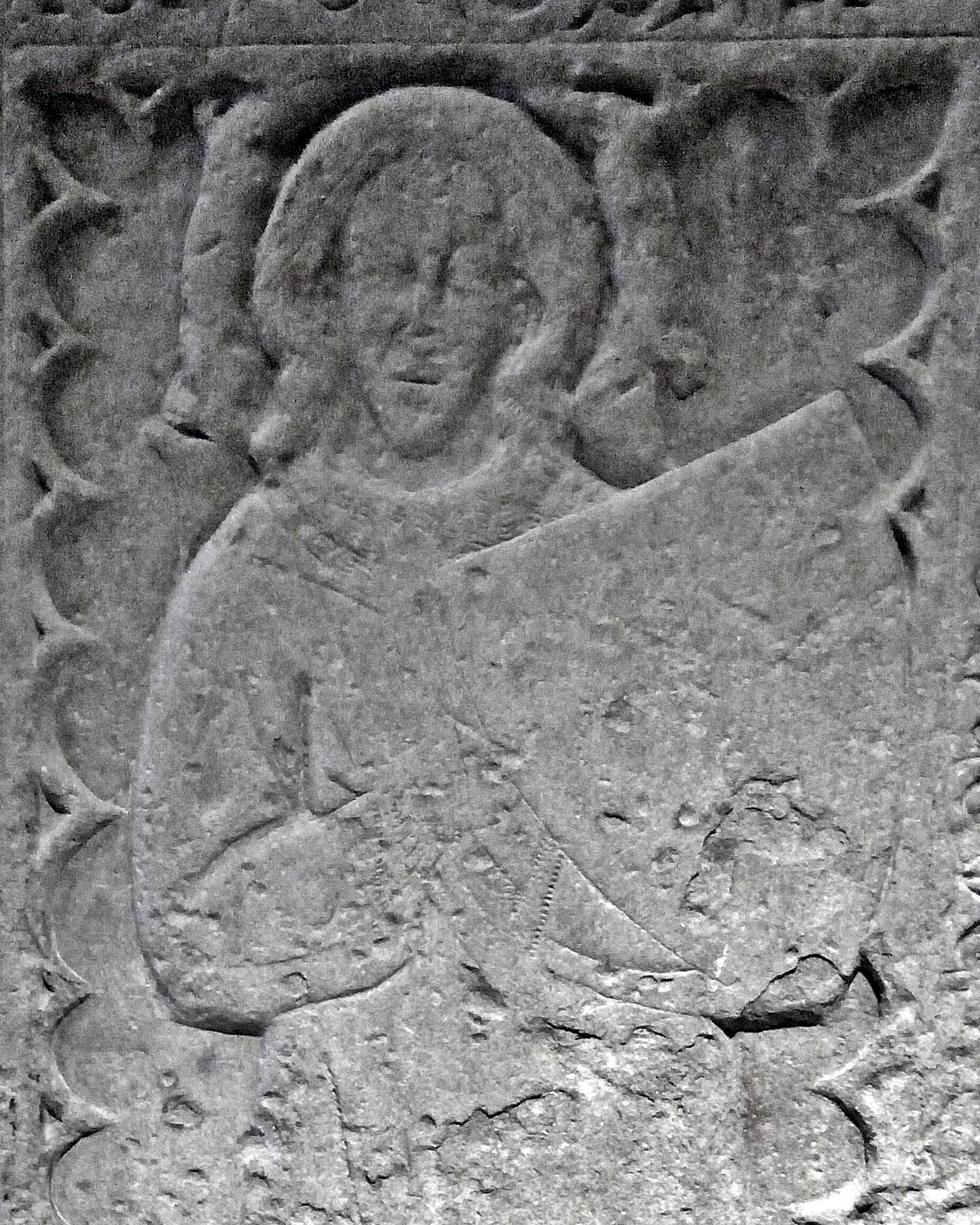 Porträt-Ausschnitt von der Grabplatte des Grafen Friedrich I. von Veldenz